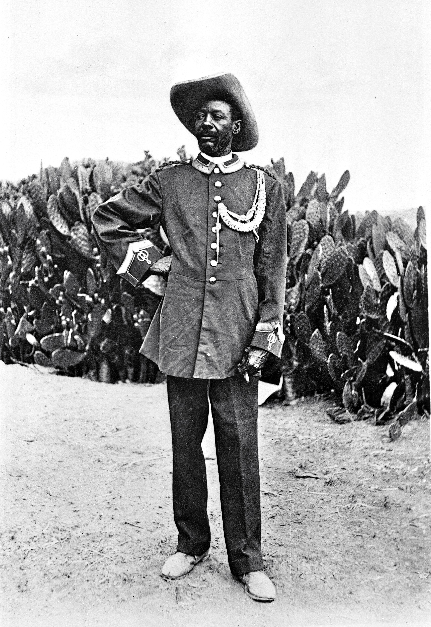 Samuel Maharero (1856-1923), son of Maharero (1820-1890)